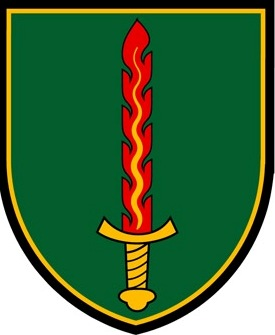 Insignia of the Lithuanian Special Operations Forces